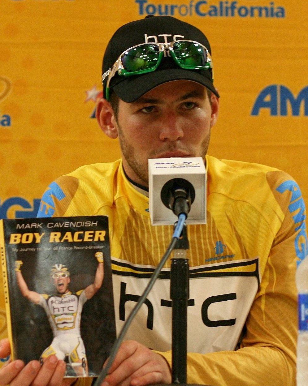 You can read the story about Cav holding this book in the New York Times. I'm the "reporter" mentioned in that article who owns this book. Update: More mentions in the media. The Santa Rosa Press Democrat story on "the book incident" is pretty funny: Velonation: Sacramento Bee